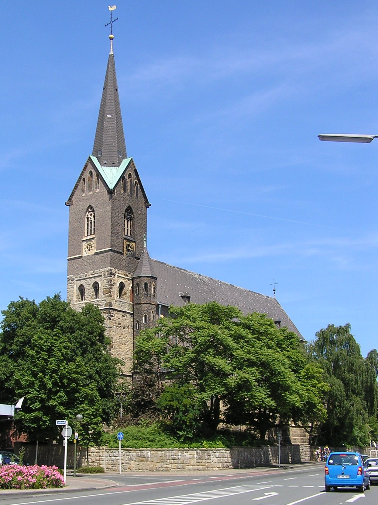 Church of St. Georg in Marl, Germany